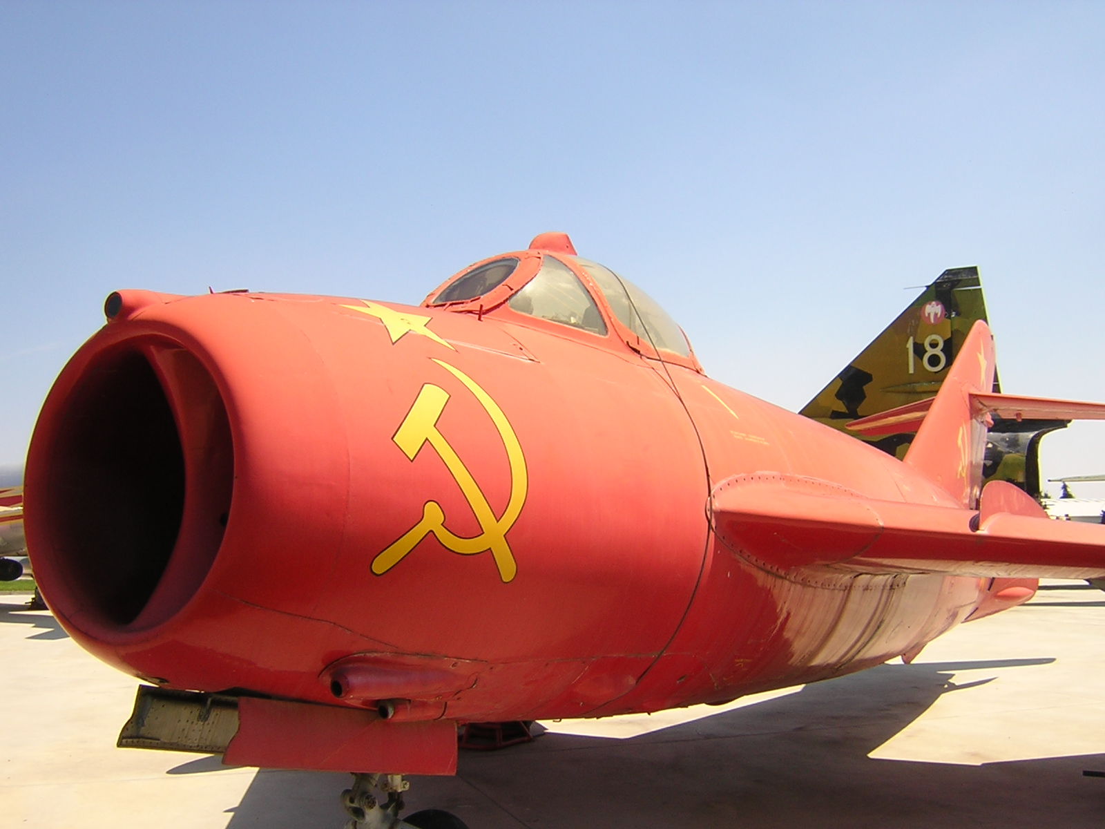 Mikoyan-Gurevich MiG-17. Aviation museum in Cuatro Vientos, Madrid, Spain.